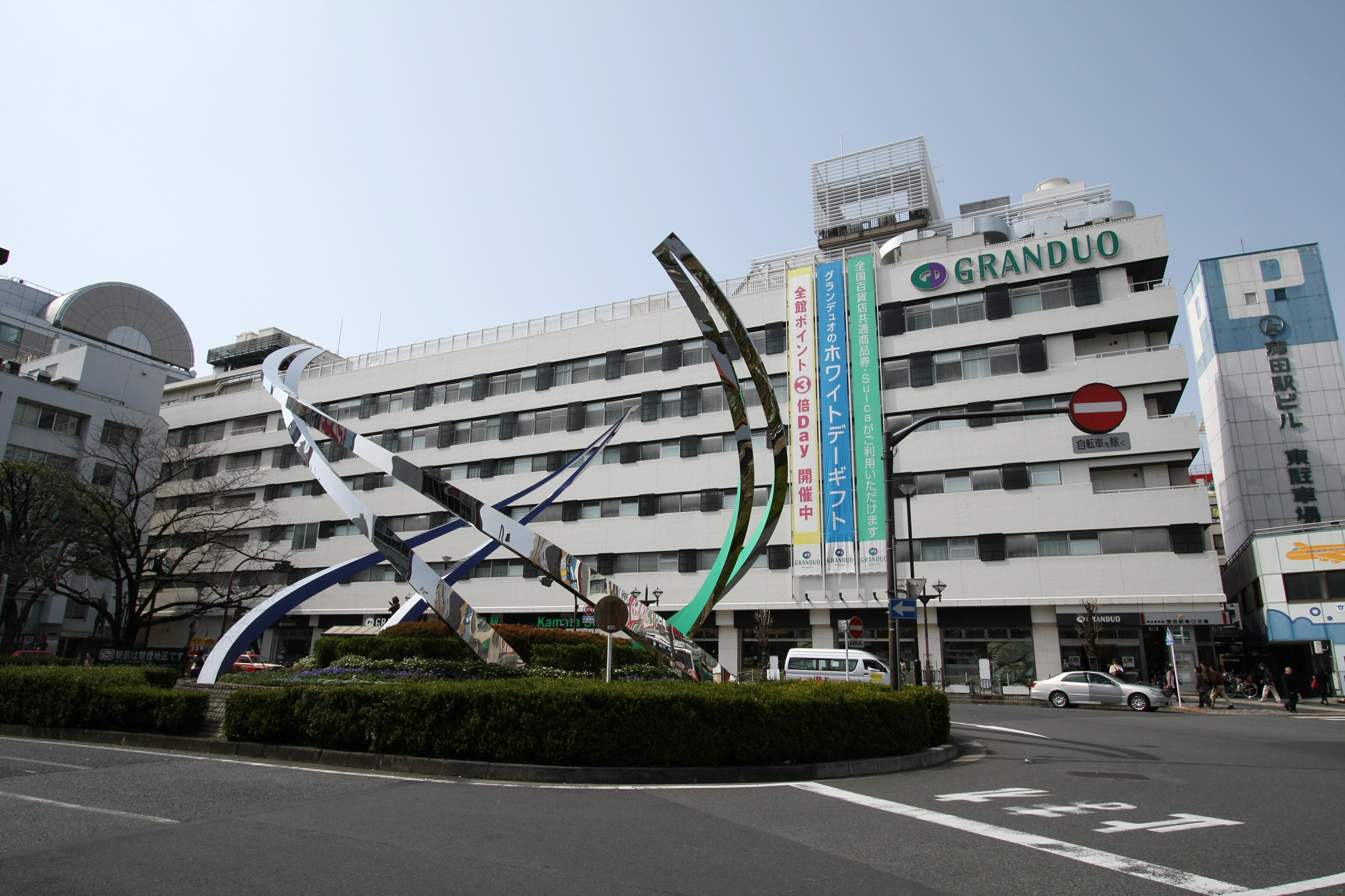 Kamata Station